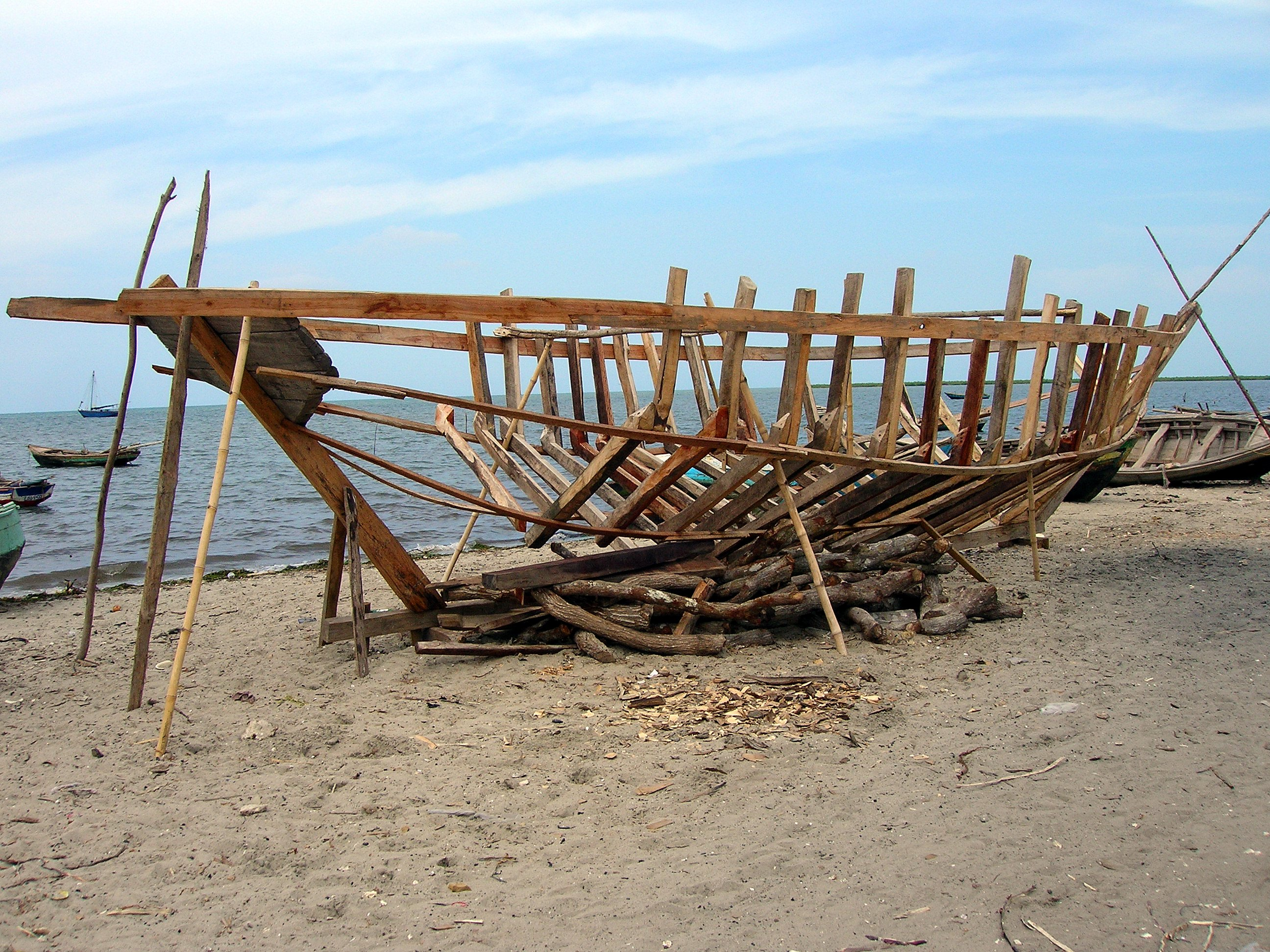 A fishing boat being built in Cap-Haitien, Haiti.